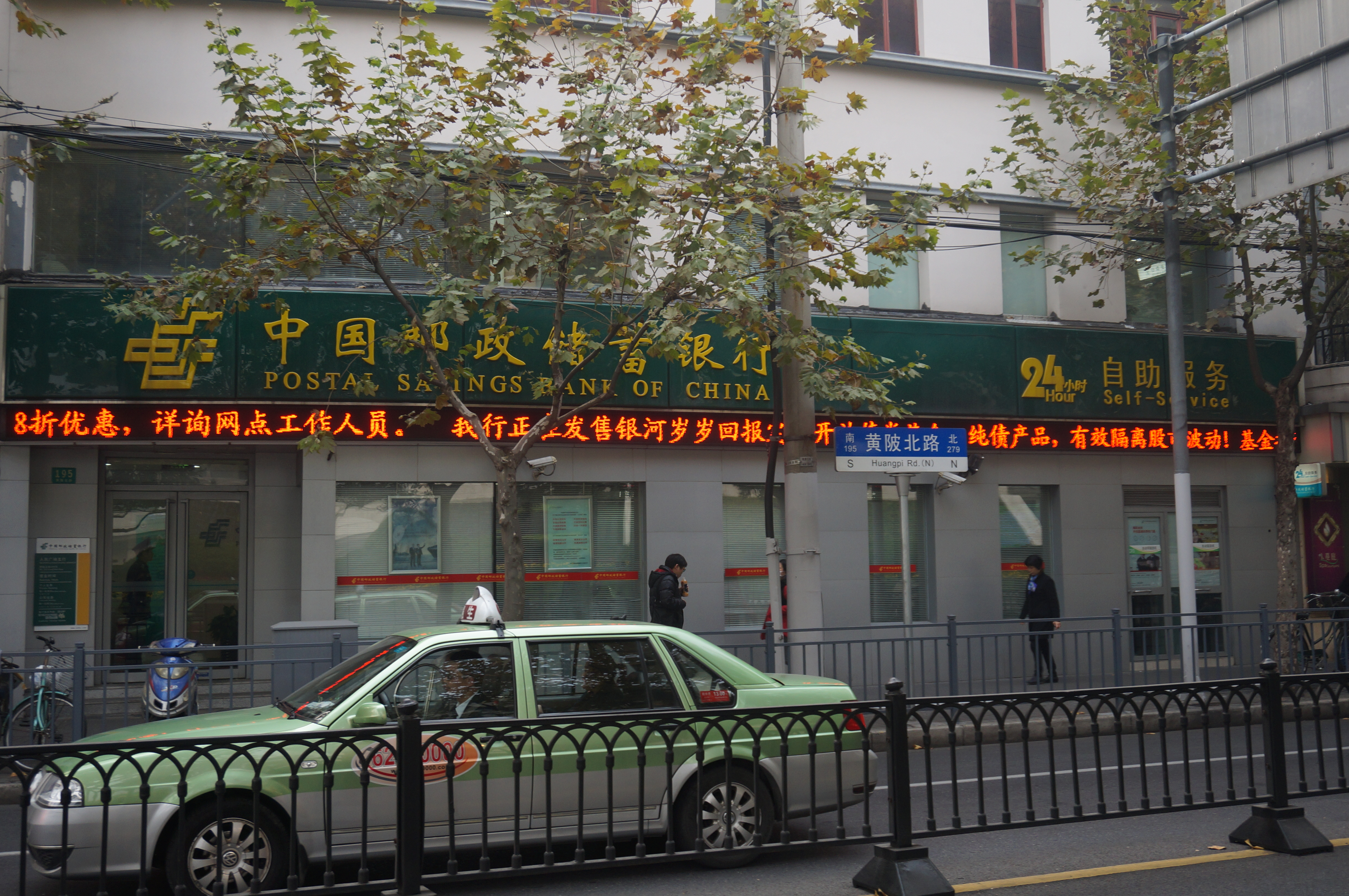 在上海黄浦区的一家中国邮政储蓄银行支行